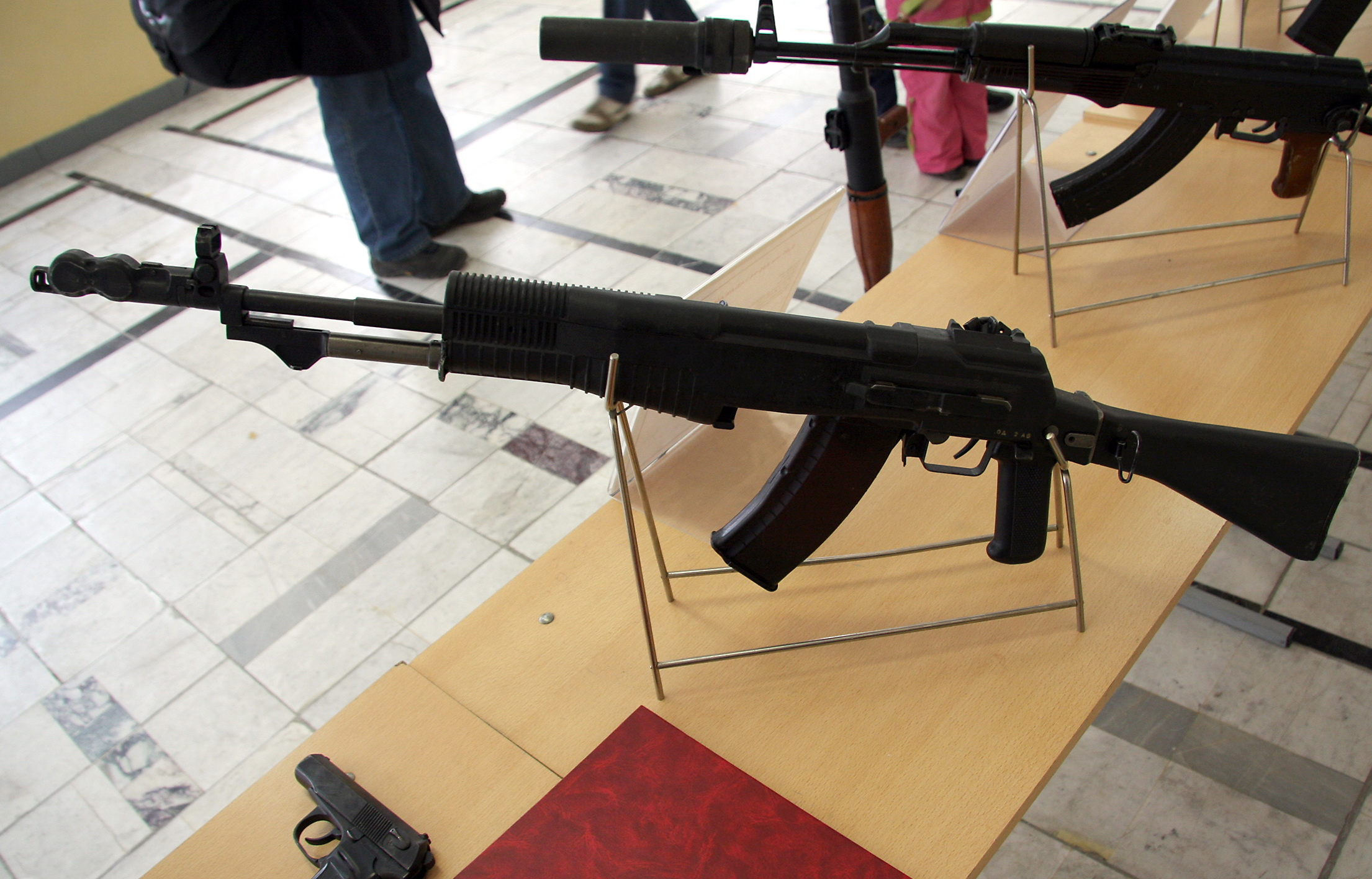 AN-94 Abakan